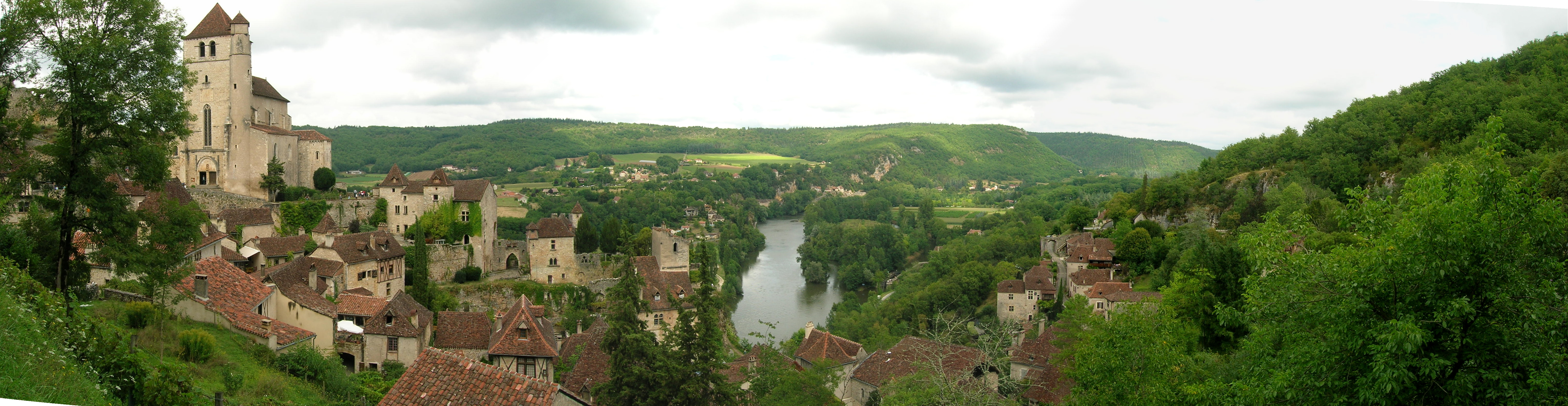 Saint-Cirq-Lapopie, Lot, France